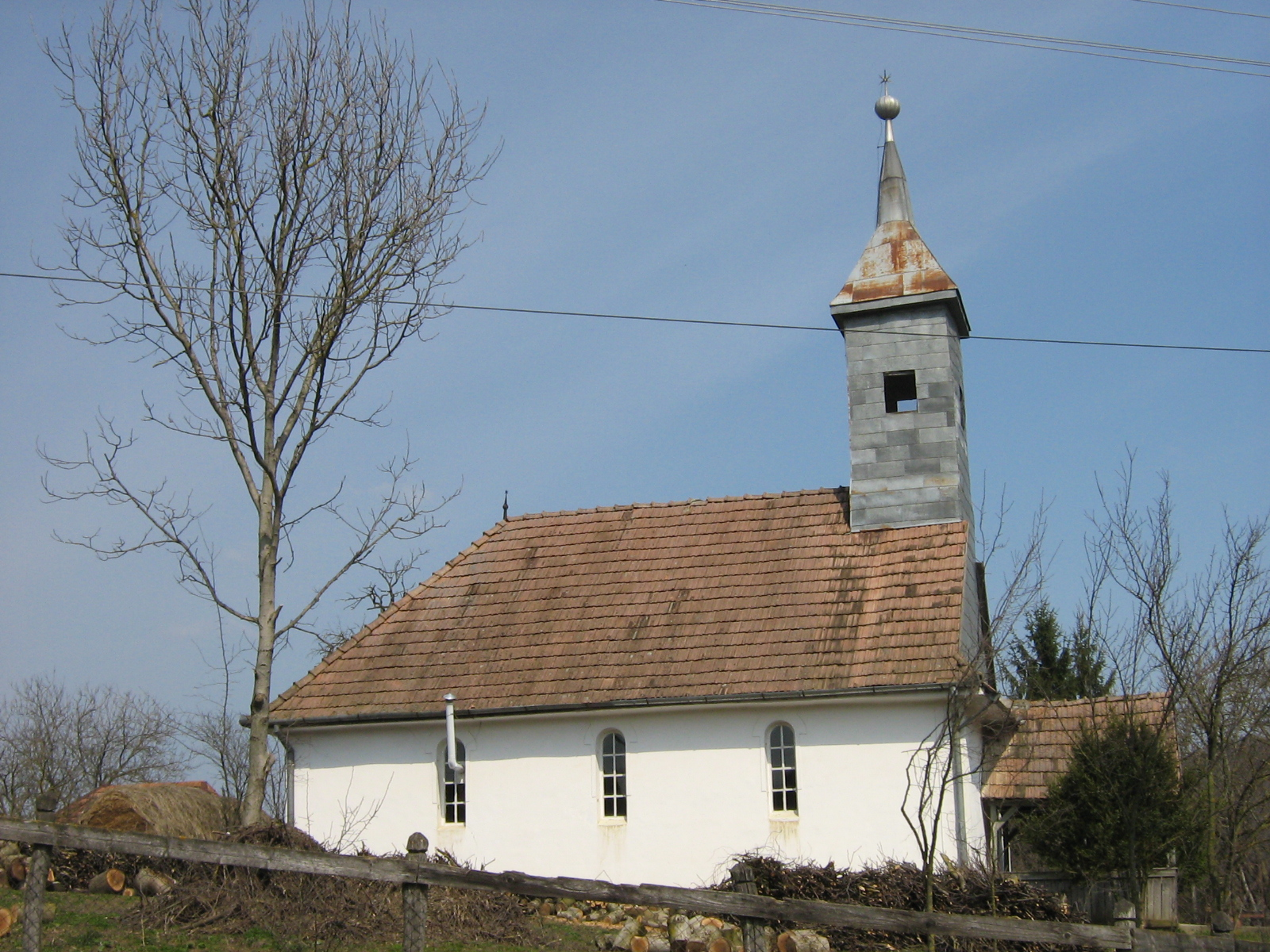 Church in Herghelia